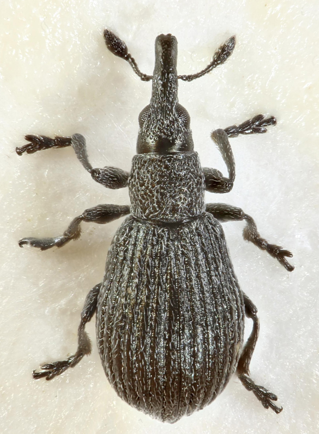 Perapion curtirostre, Deeside, North Wales, June 2015 2